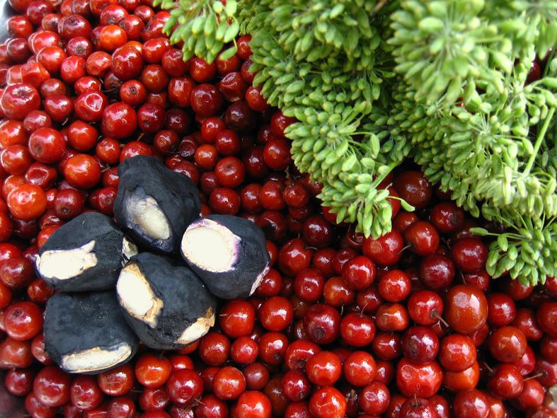 Ripped Ziziphus mauritiana - Indian Jujube (Red-orange, Fennel and Water chestnuts.